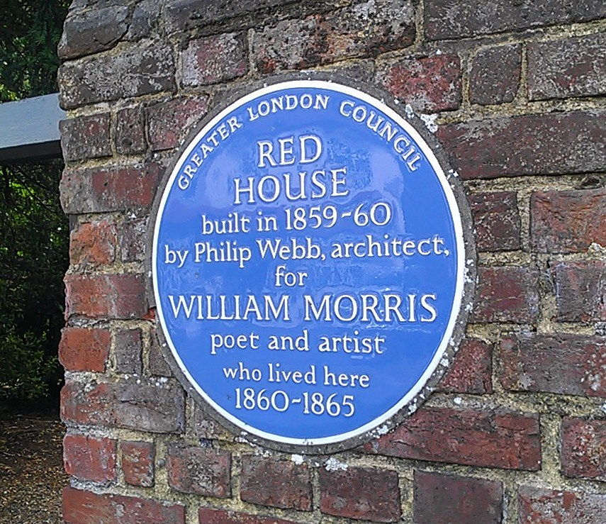 Blue plaque outside the Red House at Upton, Bexleyheath, Greater London. This image represents an Open Plaques entry #433.